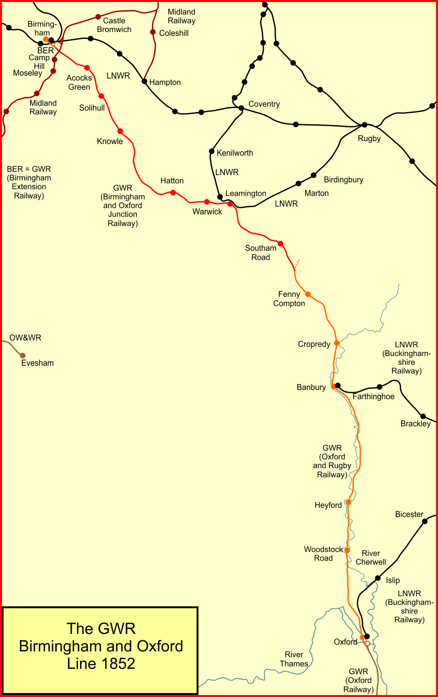 Diagram of the new railway between Oxford and Birmingham, England, in 1852